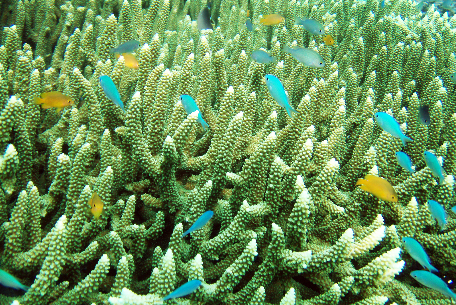 Tropical aquarium of the Raja Ampat Islands